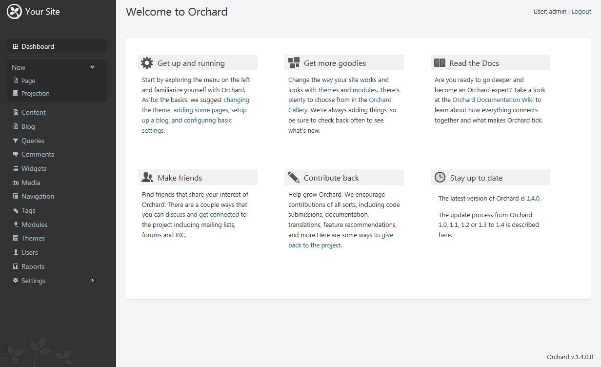 Screenshot of Orchard CMS dashboard (backend).